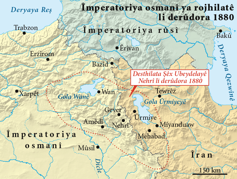 Eastern part of the Ottoman Empire ca. 1880